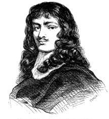 Sir William Temple, 1st Baronet (1628-1699)